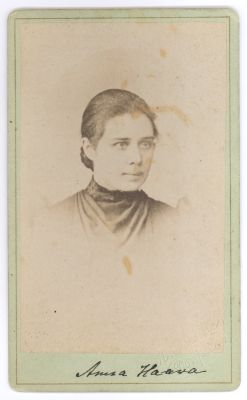 Anna Haava